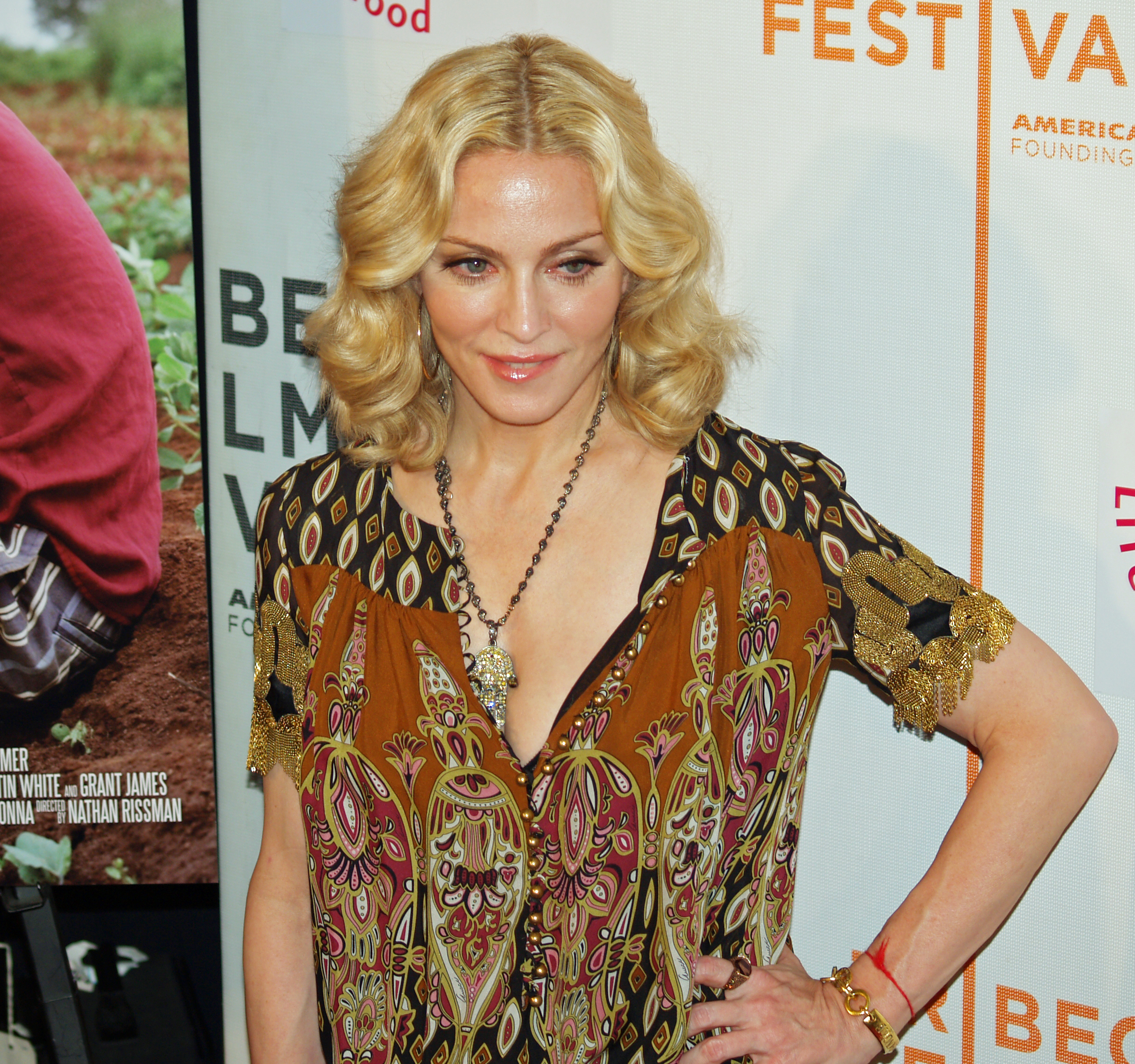 Madonna at the premiere of I Am Because We Are at the 2008 Tribeca Film Festival